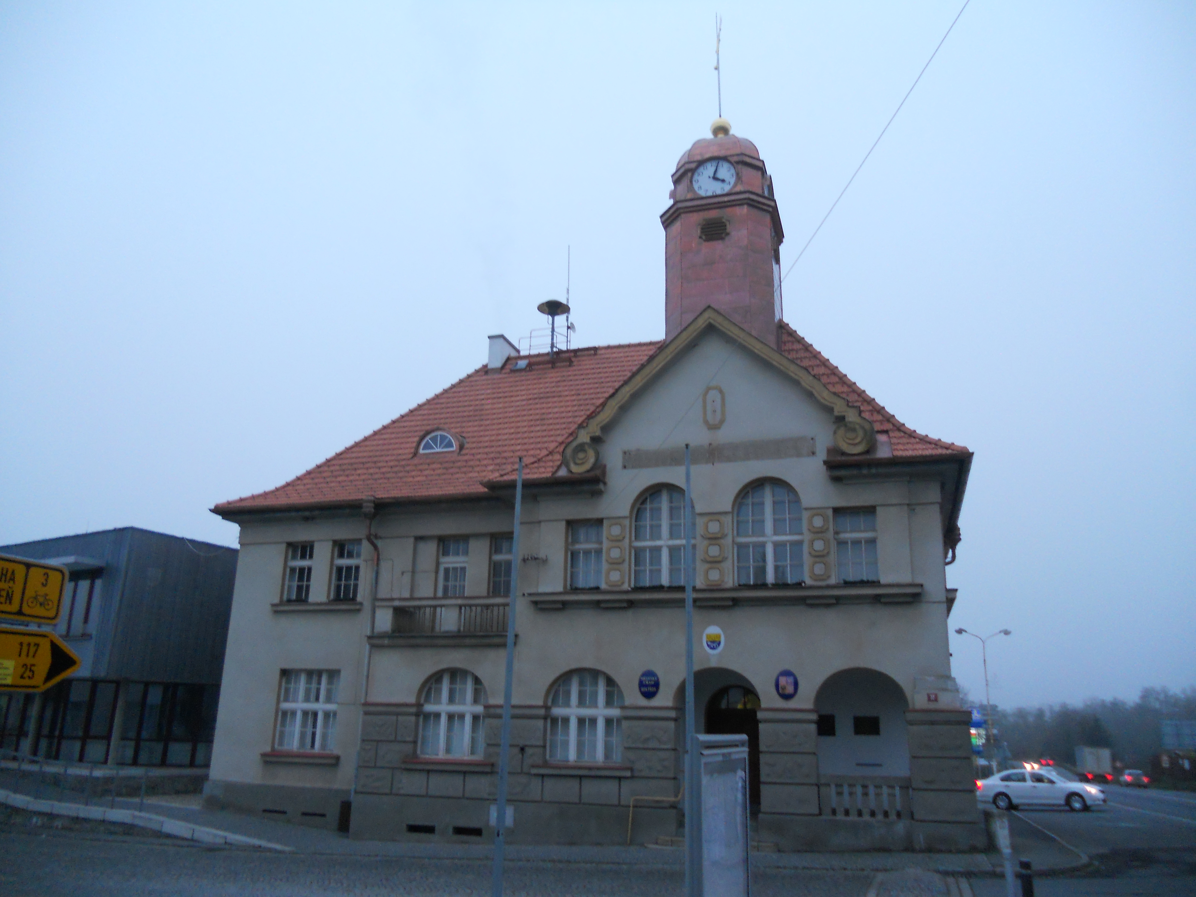 Holýšov - City hall